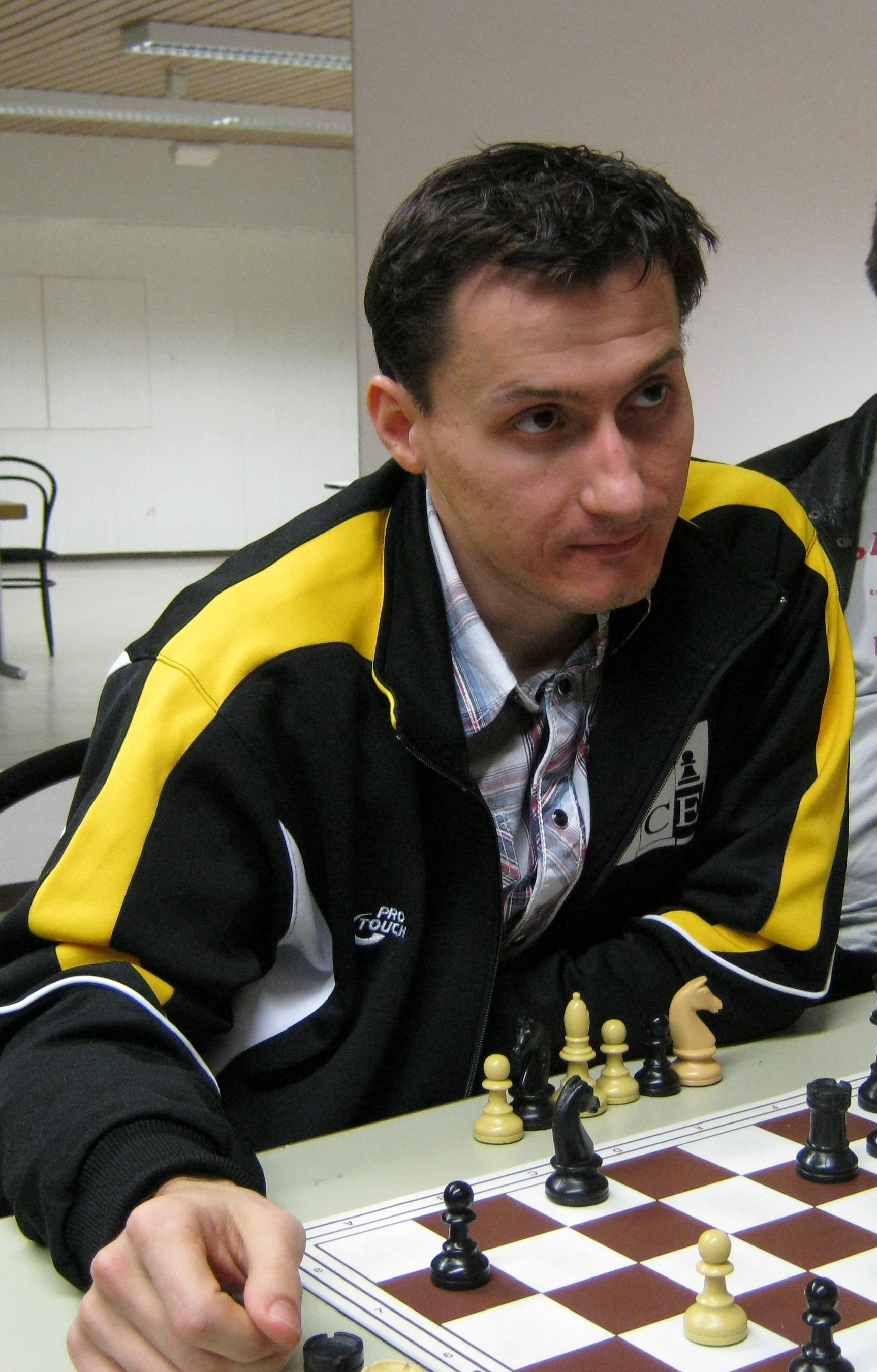 Ferenc Berkes, chess grandmaster from Hungary